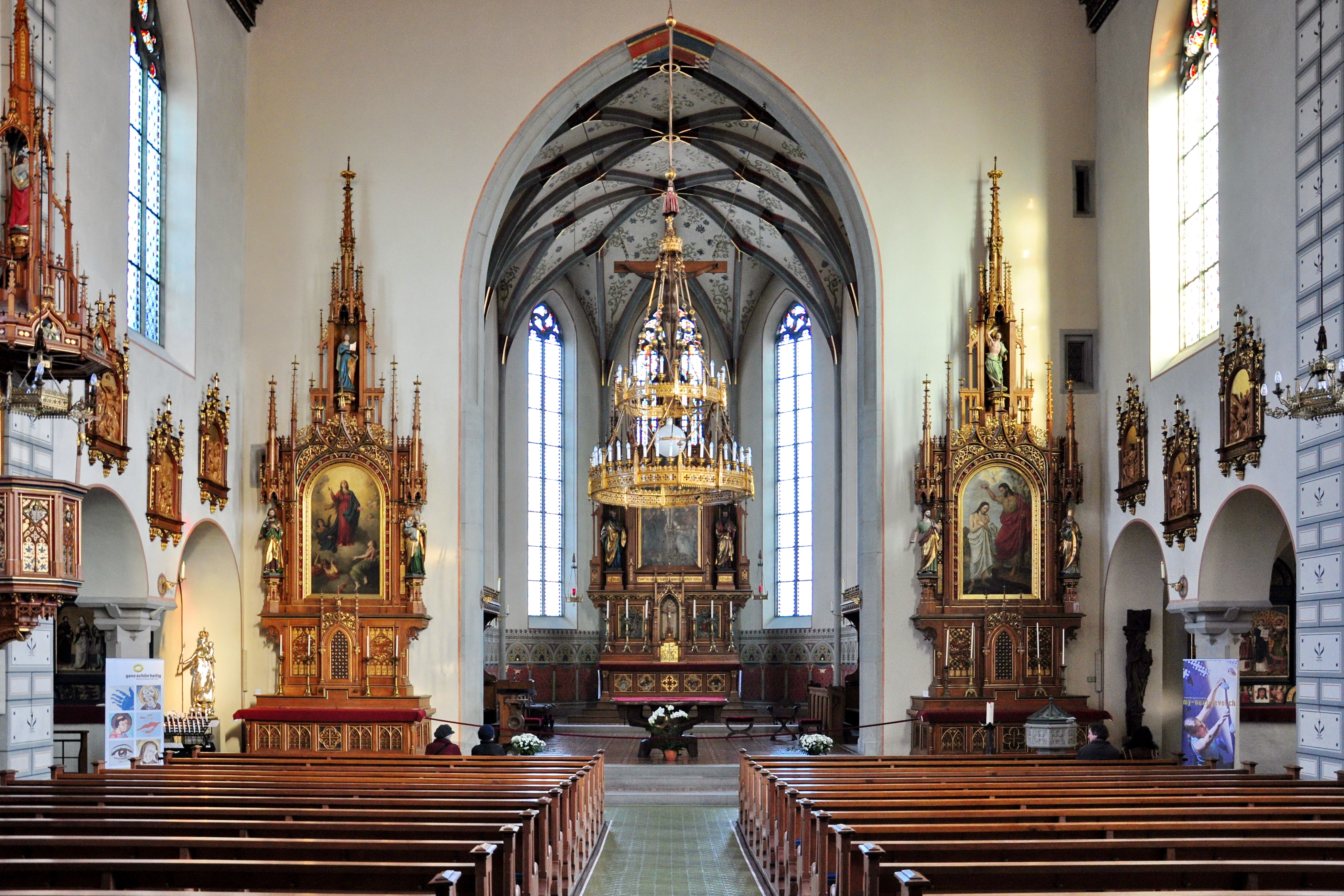 Rapperswil (Switzerland) : Stadtpfarrkiche St. Johann (S. John's church).